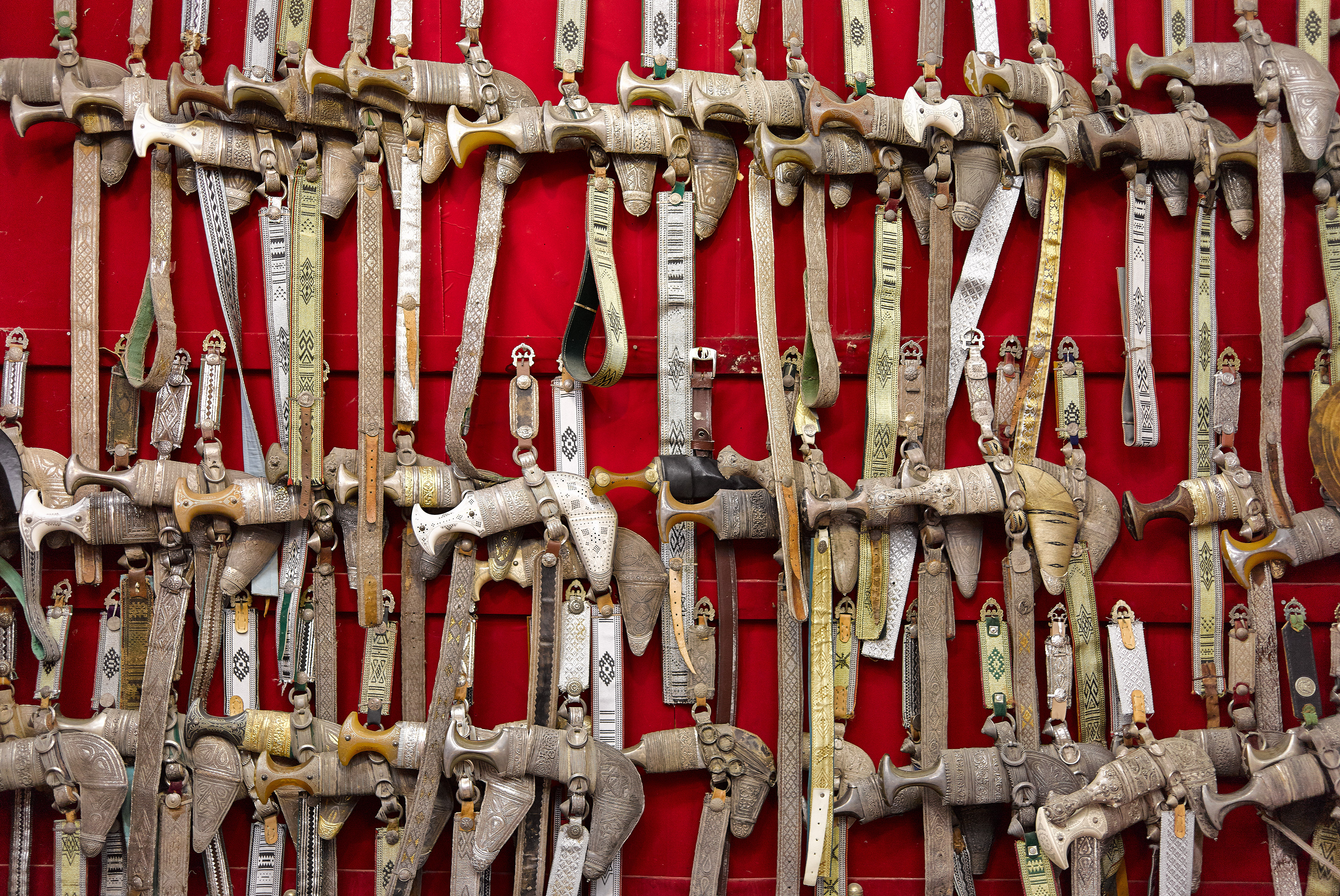 The khanjar (Arabic: خنجر) is the traditional dagger of Oman.